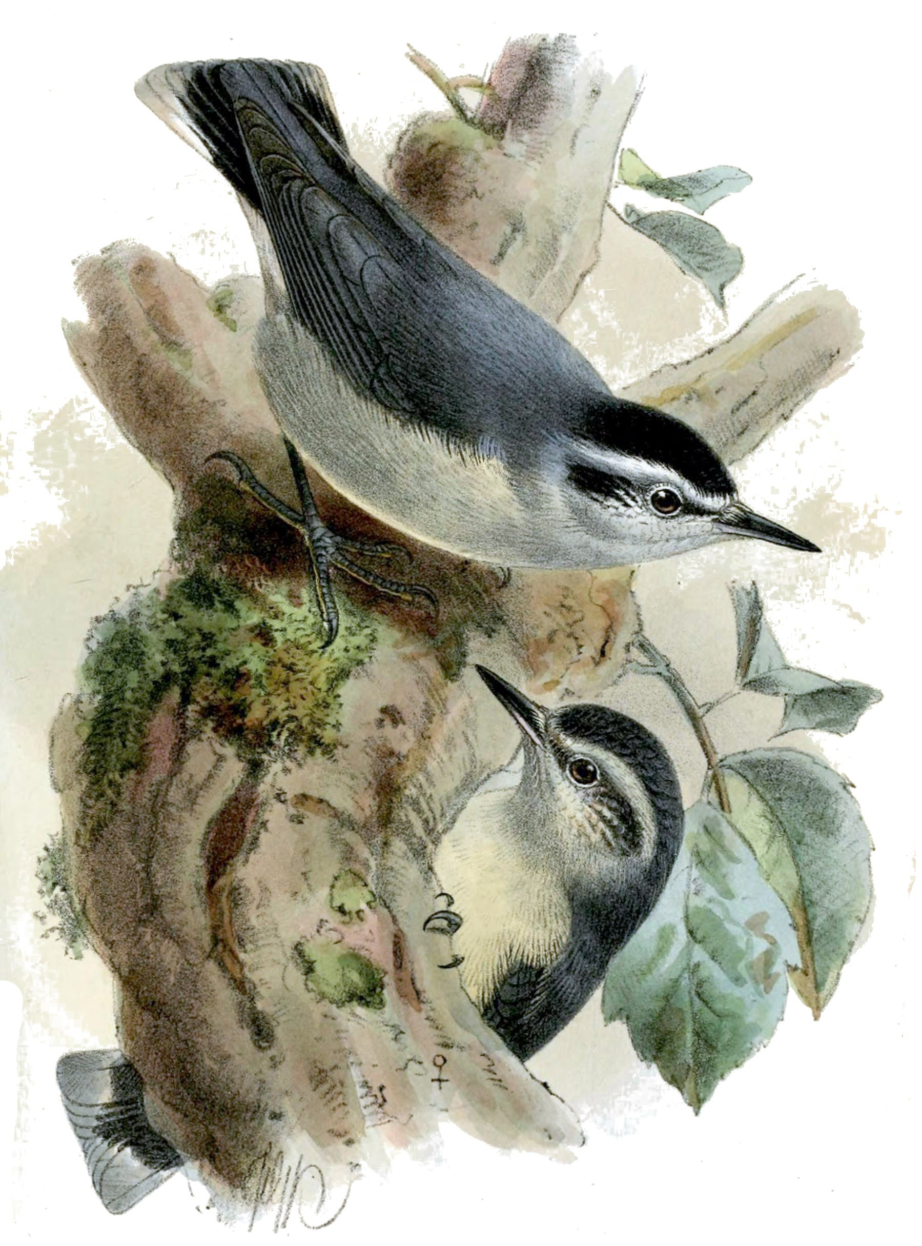 Sitta whiteheadi